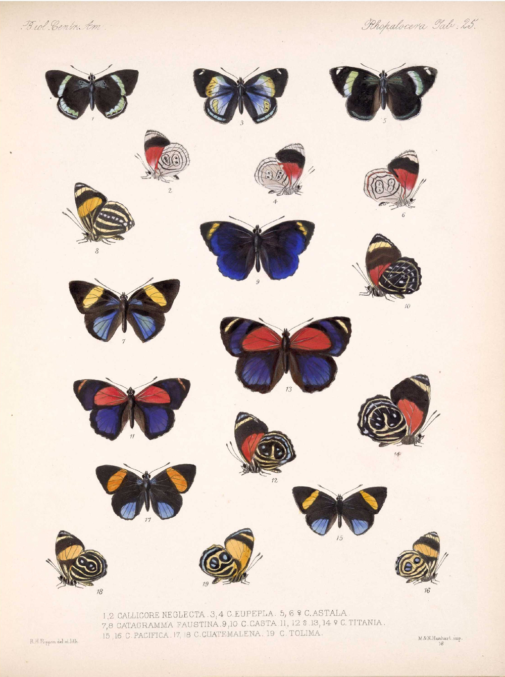 Biblidinae butterflies